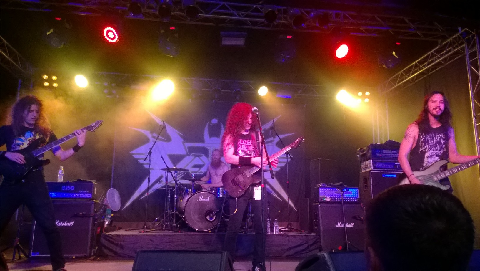 American thrash metal band Vektor (band) live in Moscow (2016).